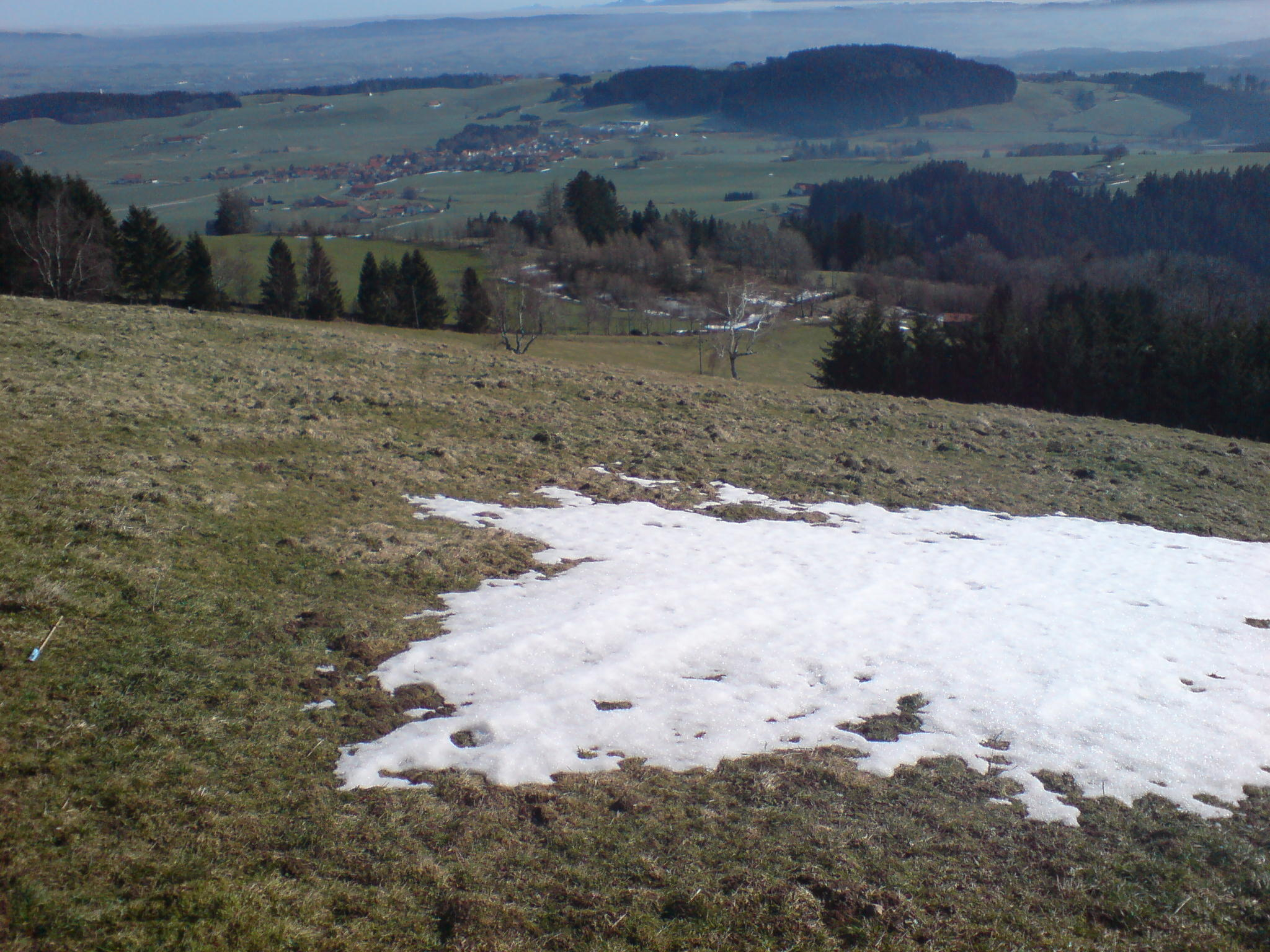 Ermengerst (part of Wiggensbach), picture taken from the Blender (mountain)